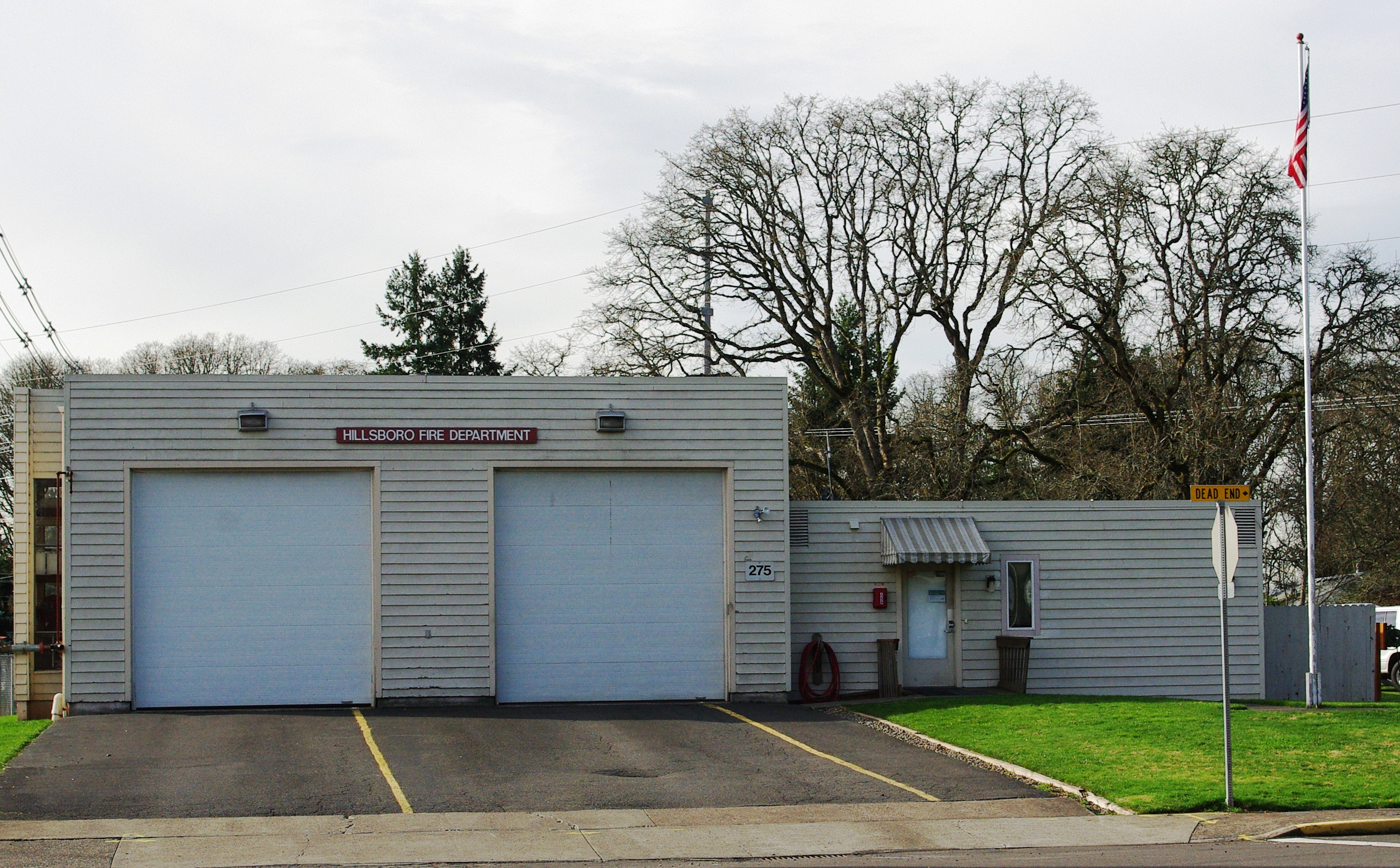 Fire station on NE 25th Street in Hillsboro, Oregon, USA.